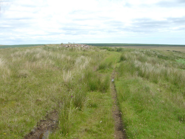 Cnoc-glas on the Ca-na-Catanach The ruined house of Cnoc-glas lies next to the Ca-na-Catanach, an ancient route from Caithness to Kinbrace in Sutherland.